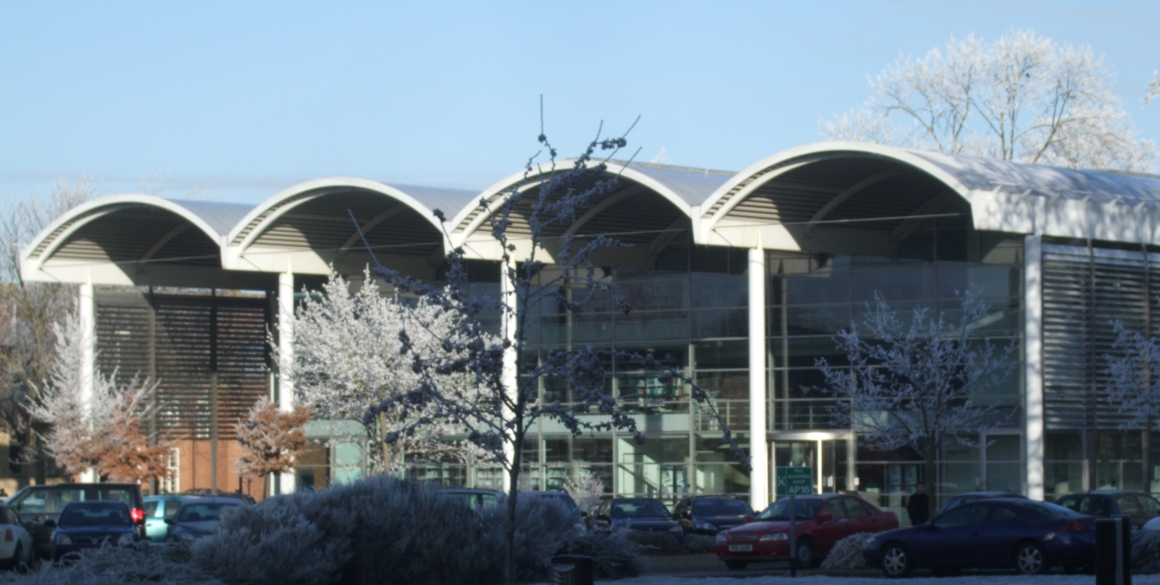 Cranfield University Library